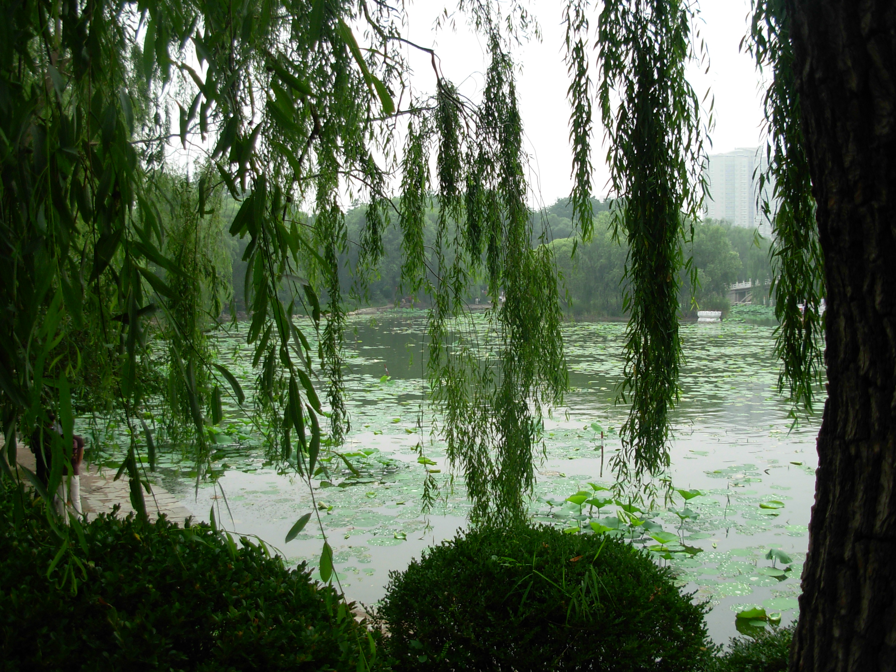 Purple Bamboo Park (Zizhuyuan) in Beijing